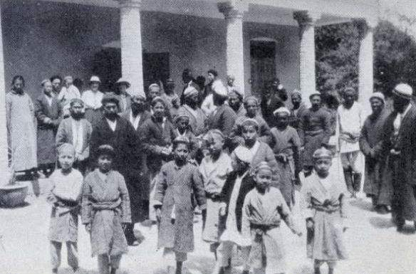 Christians outside the church at Kashgar in the early 1930s. All of the believers were converts from Islam, and most were slaughtered by Muslims in 1933. There has been no visible church among the Muslims in Xinjiang to this day.